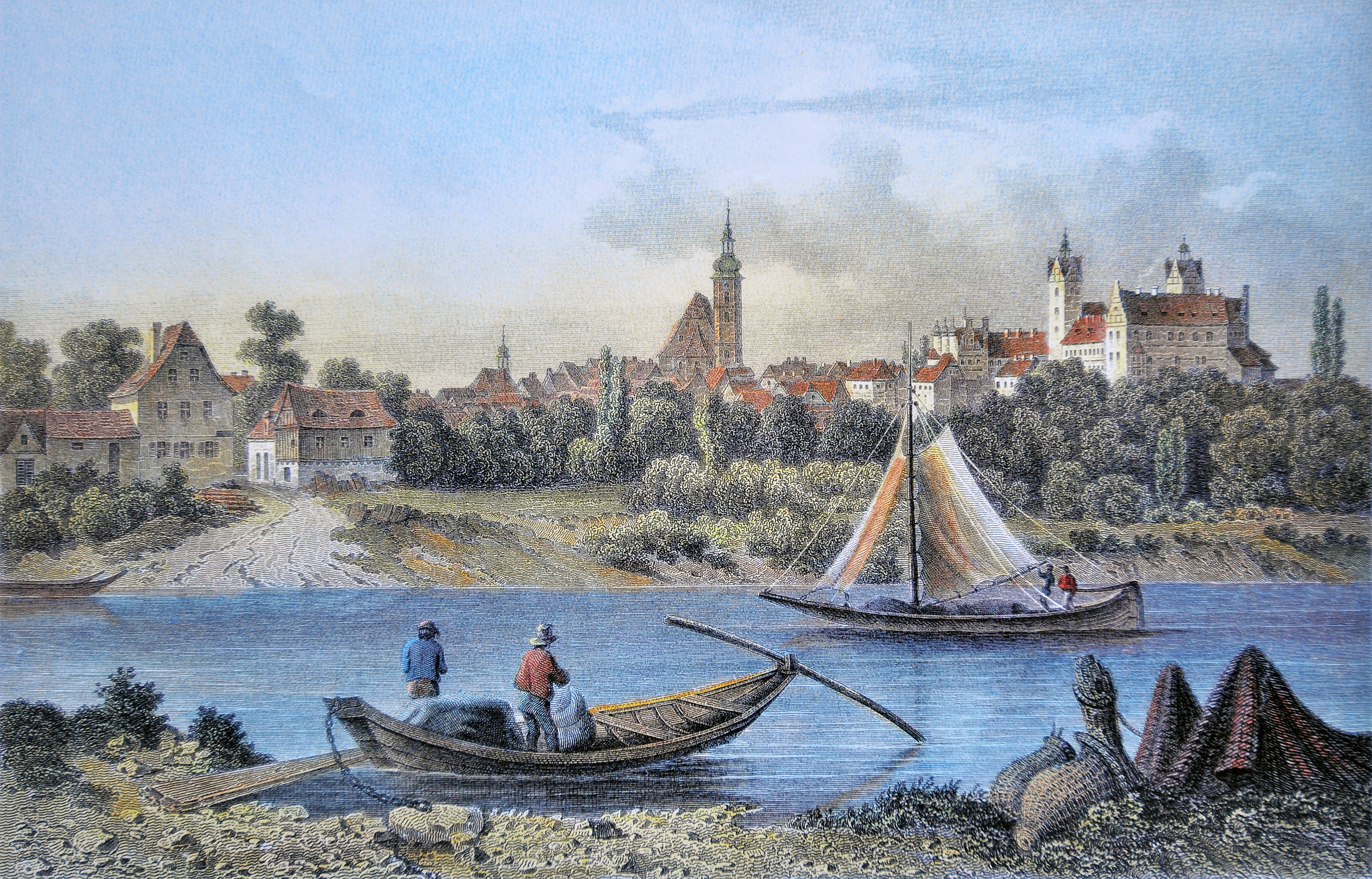 Fishermans from Lorenzkirch in front of Strehla, Saxony, Germany. Coloured steel engraving "Strehla (in Sachsen)" by J. Umbach, pub. by G.G. Lange, Darmstadt.